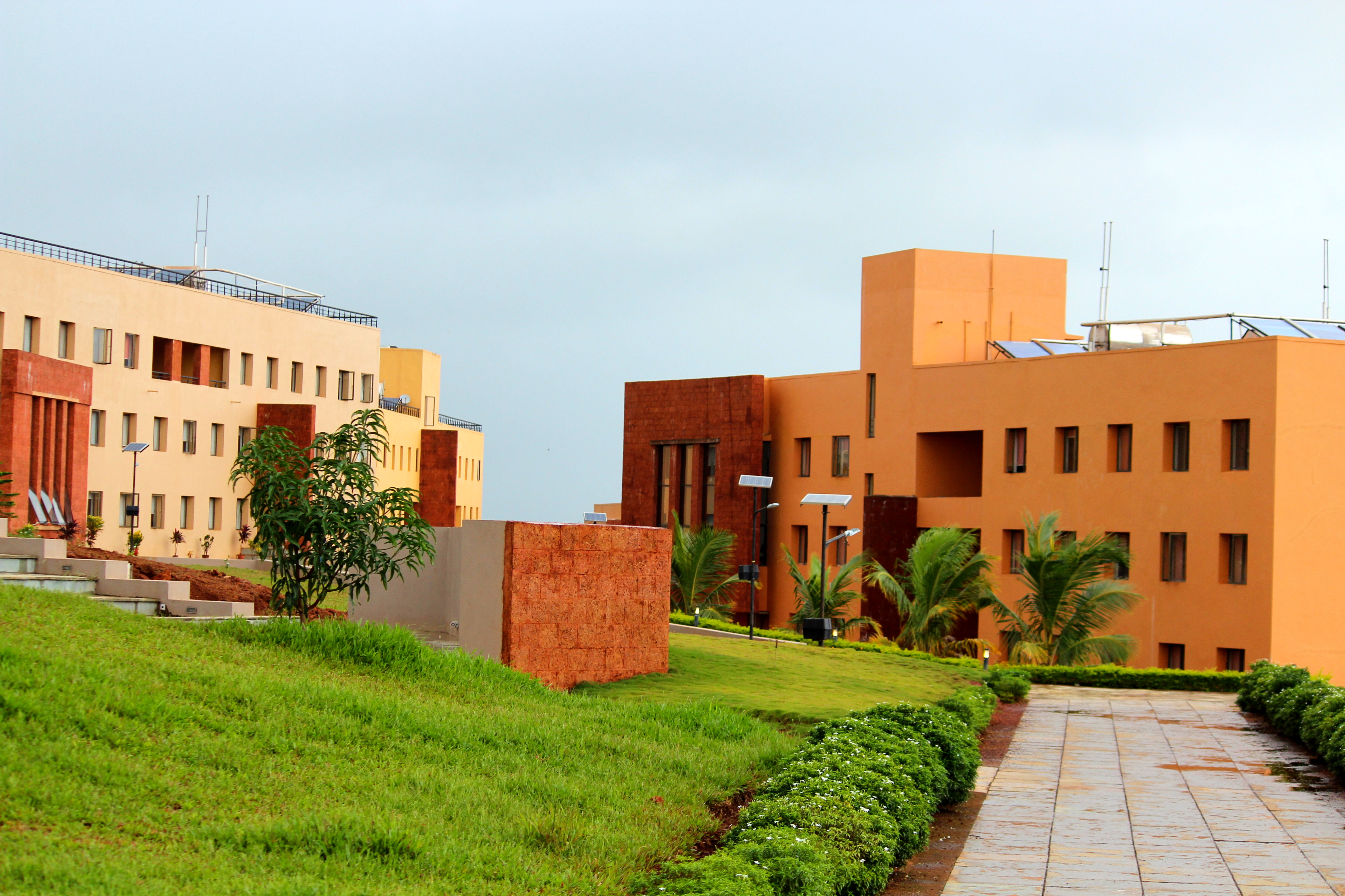 Sanqleim Campus